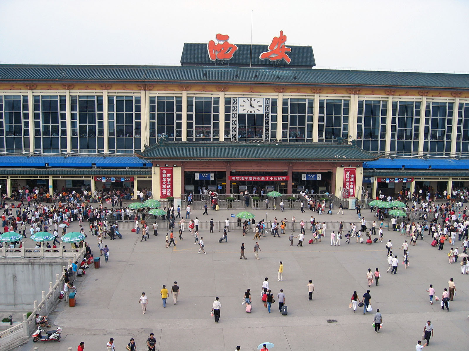 Xi'an Train Station